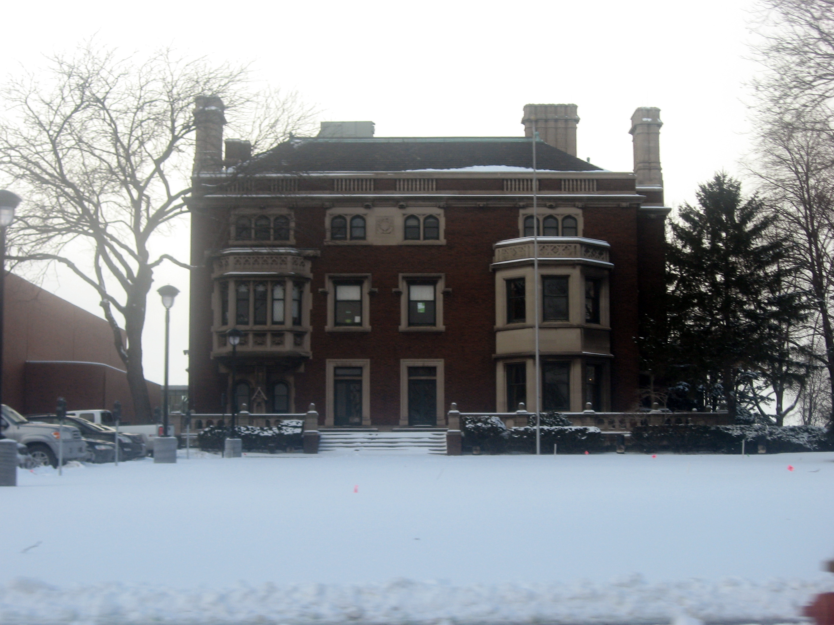 Front of University Hall (also known as the Mather Mansion), located at 2605 Euclid Avenue on the campus of Cleveland State University in Cleveland, Ohio, United States. Built in 1910 for Samuel Mather and designed by architect Charles F. Schweinfurth, it is listed on the National Register of Historic Places.